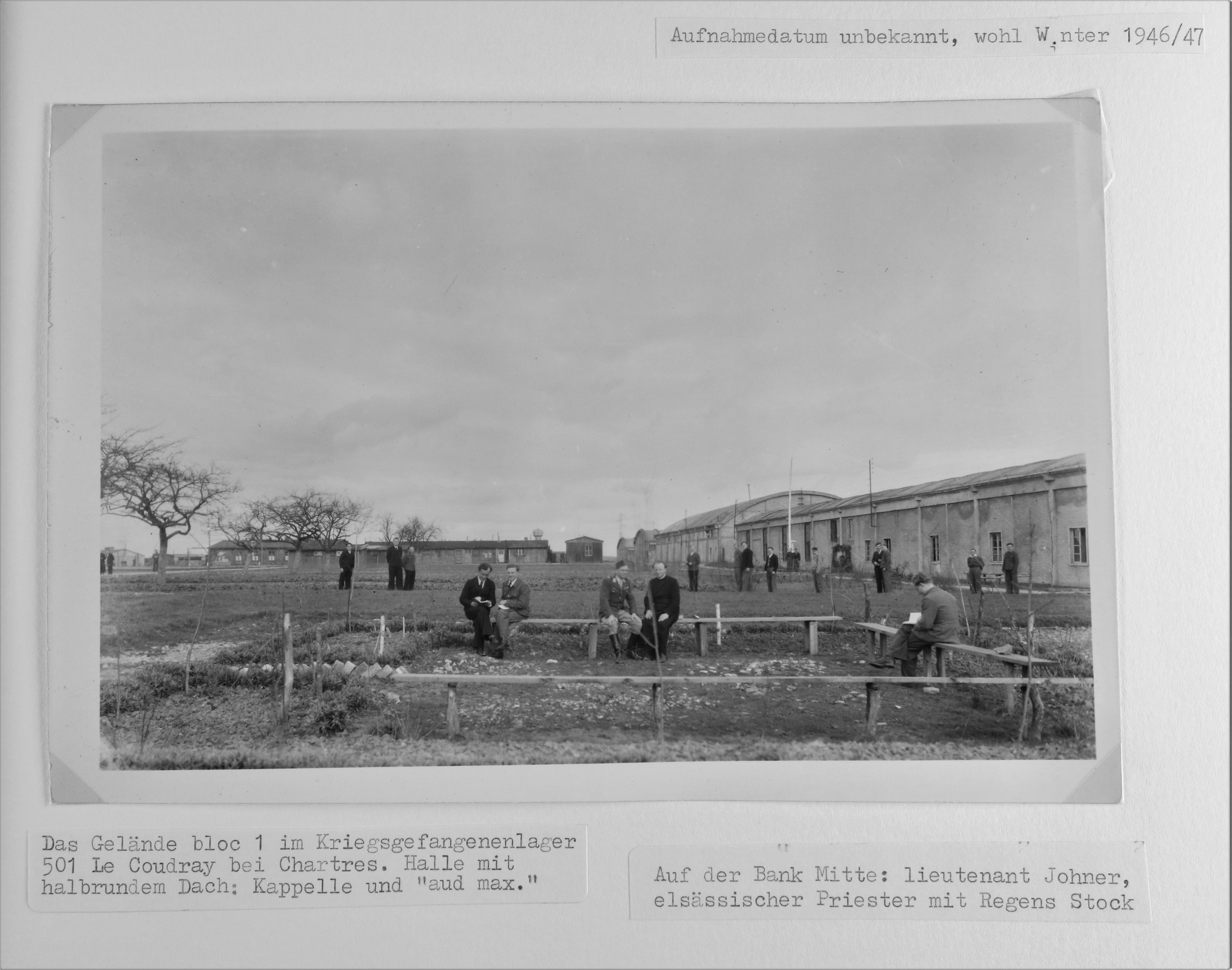 Bloc 1 of the French POW camp 501 in Le Coudray near Chartres (winter 1946/47). In the middle on a bench: Abbé Franz Stock with Liutenant Johner, a priest from Alsace. The so-called barbed wire seminar (French: "Séminaire des barbelés") was a Catholic seminary existing from 1945 to 1947 in French prisoner-of-war camps, first in Orléans, then near Chartres. On the initiative of the French government and with the support of the Apostolic Nuncio in France, Angelo Giuseppe Roncalli, German-speaking priests and seminarians who were prisoners of war, were gathered and taught here. The director of the seminar was the French priest Abbé Stock.